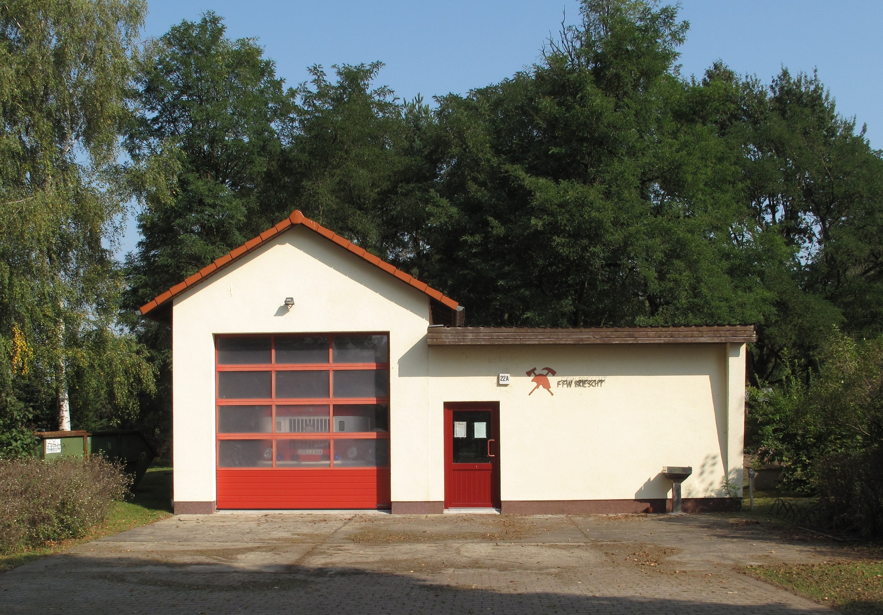 Volunteer fire department in the village Briescht, a part of the municipality Tauche in the District Oder-Spree, Brandenburg, Germany.